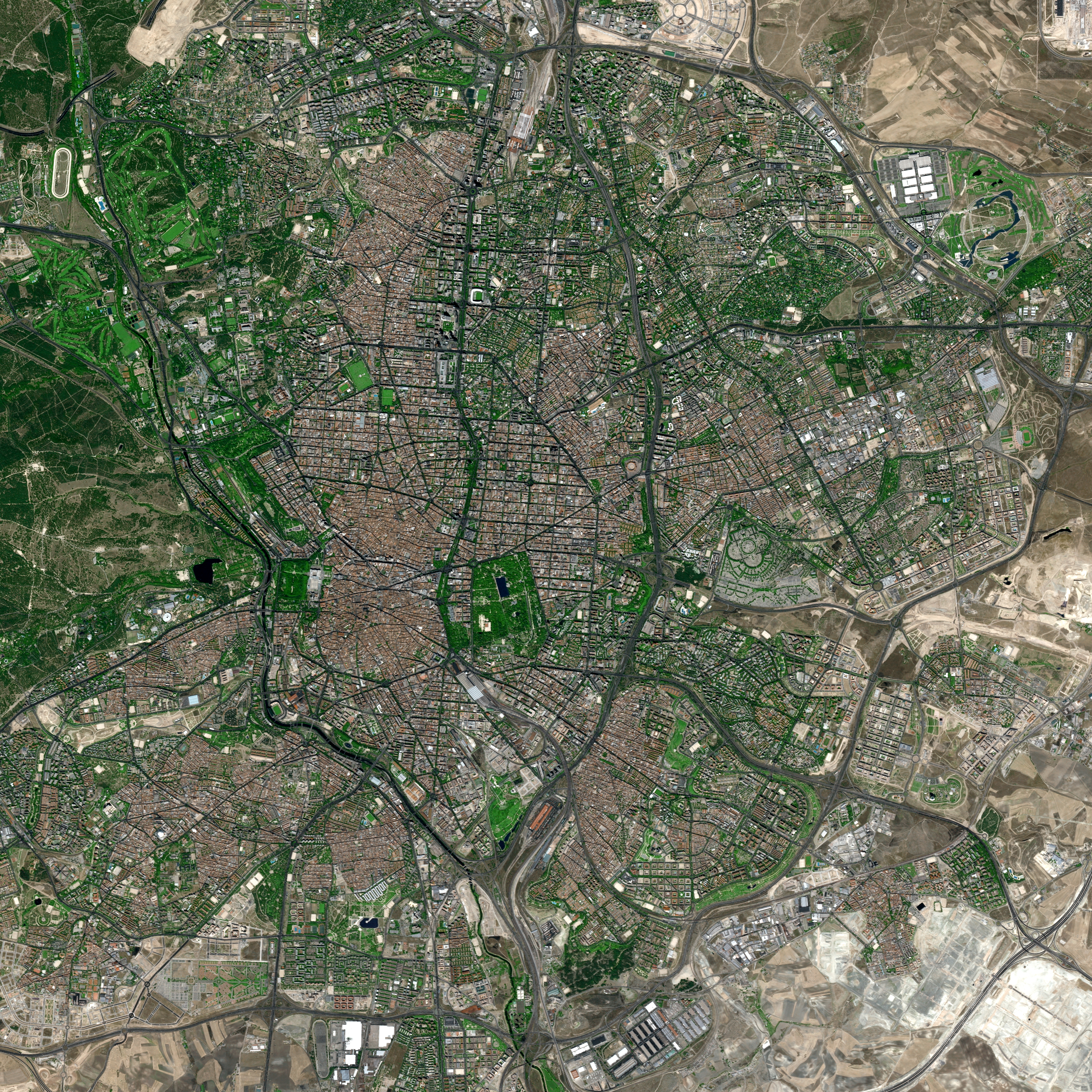 Madrid by SPOT Satellite